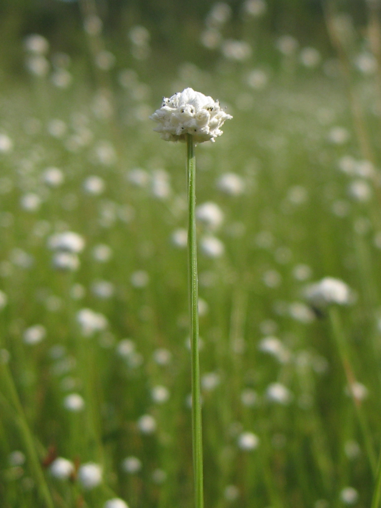 Eriocaulon nudicuspe Maxim.Date taken(YYYY-MM-DD): 2010-09-19Place taken: Aichi Prefecture Forest Park, Owariasahi, Aichi, Japan.